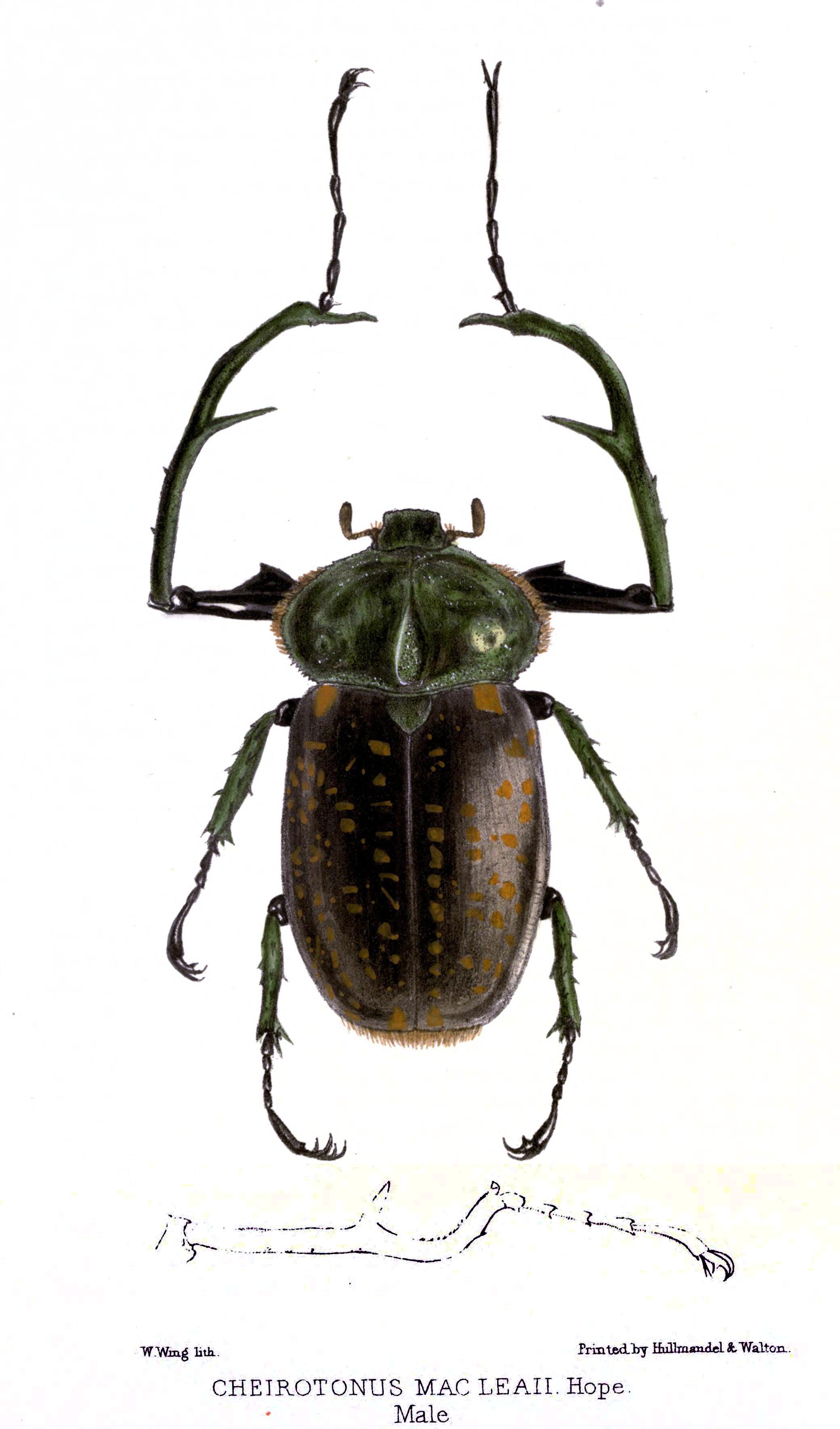 Cheirotonus macleayi possibly now C. formosanus